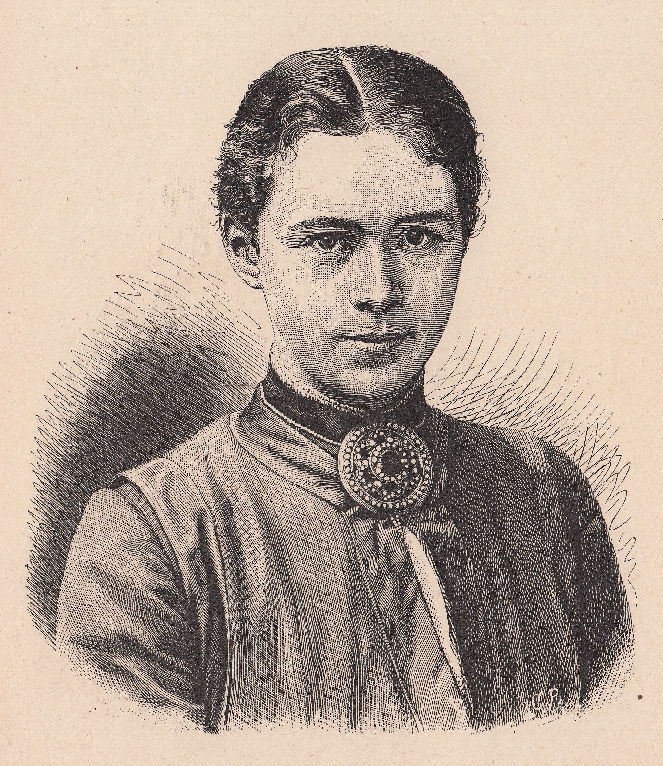 Danish poet J. Blicher-Clausen